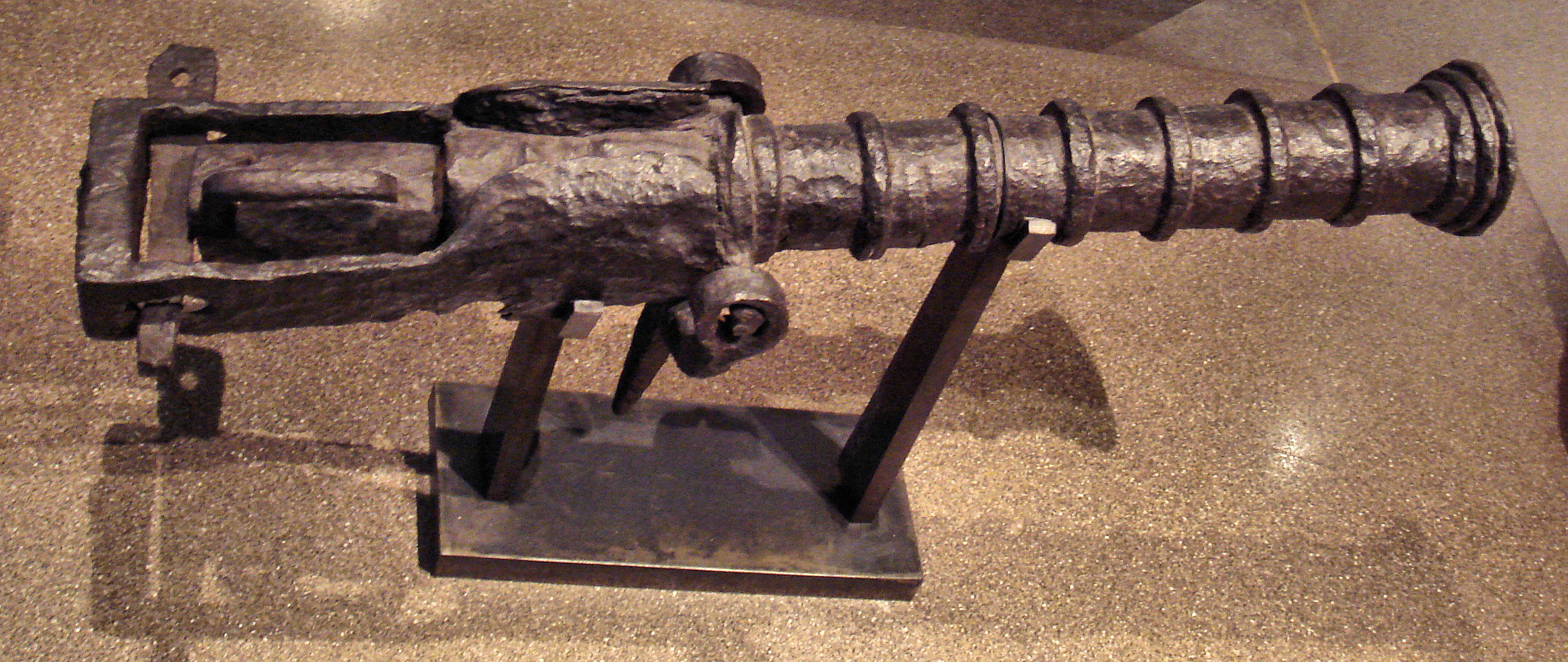 40Kg Wrought Iron Murderer, 1410 France